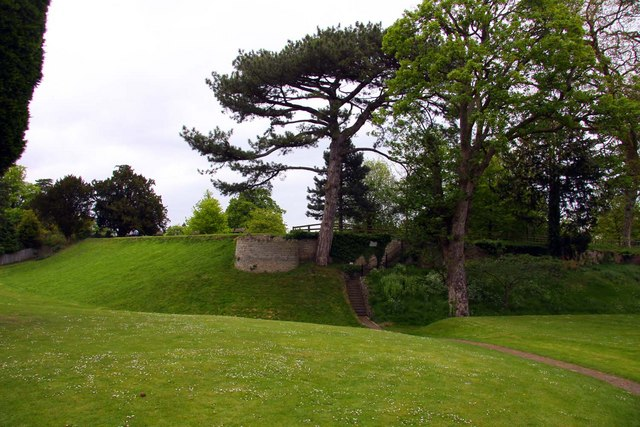 Wallingford Castle Gardens